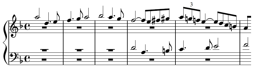 The first bars of "Contrapunctus 14, a 4" (in the 1878 edition) or "Early version of Contrapunctus X" (in the 1926 edition) from "The Art of Fugue" BWV 1080 by Johann Sebastian Bach. Sheet music created with MuseScore software.